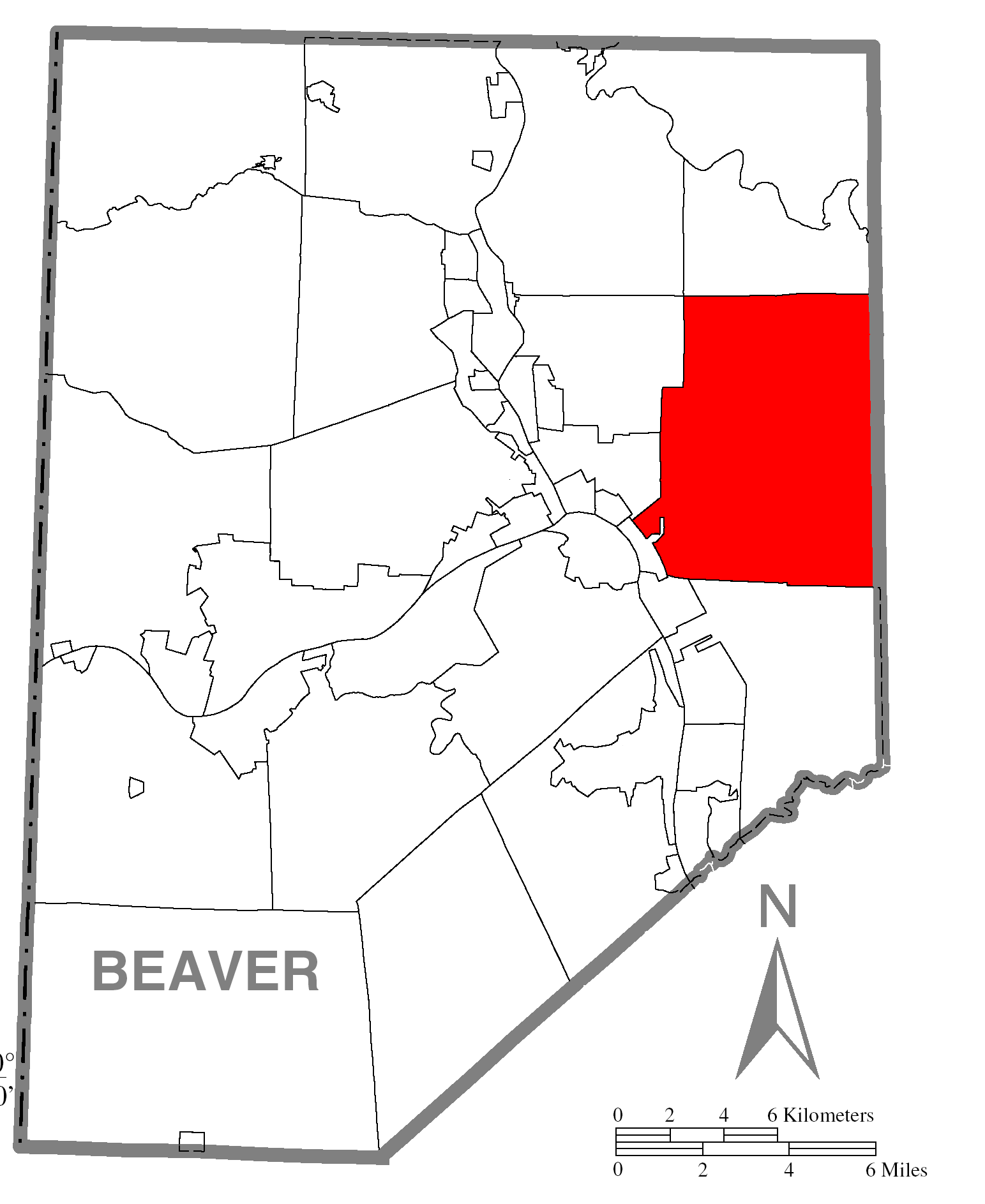 A map of Beaver County showing New Sewickley Township, Pennsylvania (alternate) highlighted on the map.